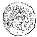 Coin with Numa Pompilius, the legendary second King of Rome, and Ancus Marcius, fourth King of Rome, supposed to be Numa Pompilius's grandson, on the obverse. The coin reads NVMAE. POMPILI. ANCI. MARCI. The reverse shows Victory upon a pillar and a ship below a moon.